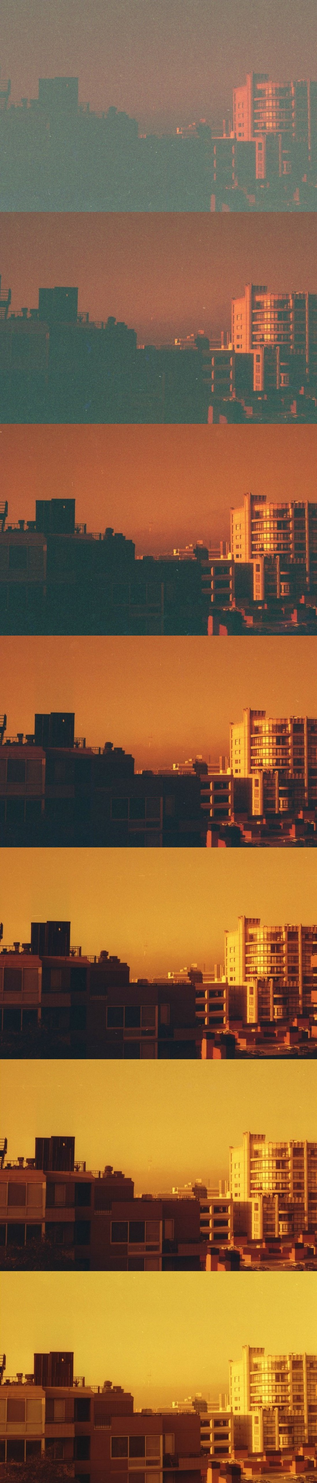 7 different exposures of a cityscape in San Francisco on a foggy morning, using redscale film. The film is Lomography Redscale XR 50-200 35mm. The camera used is a Nikon FE with a Nikkor F-type 50 mm 1:1.4 lens, equipped with a UV filter, set to f/8. The exposures were set for ISO 800 (~1/1000 s exposure), 400, 200, 100, 50, 25, and 12 (from top to bottom).